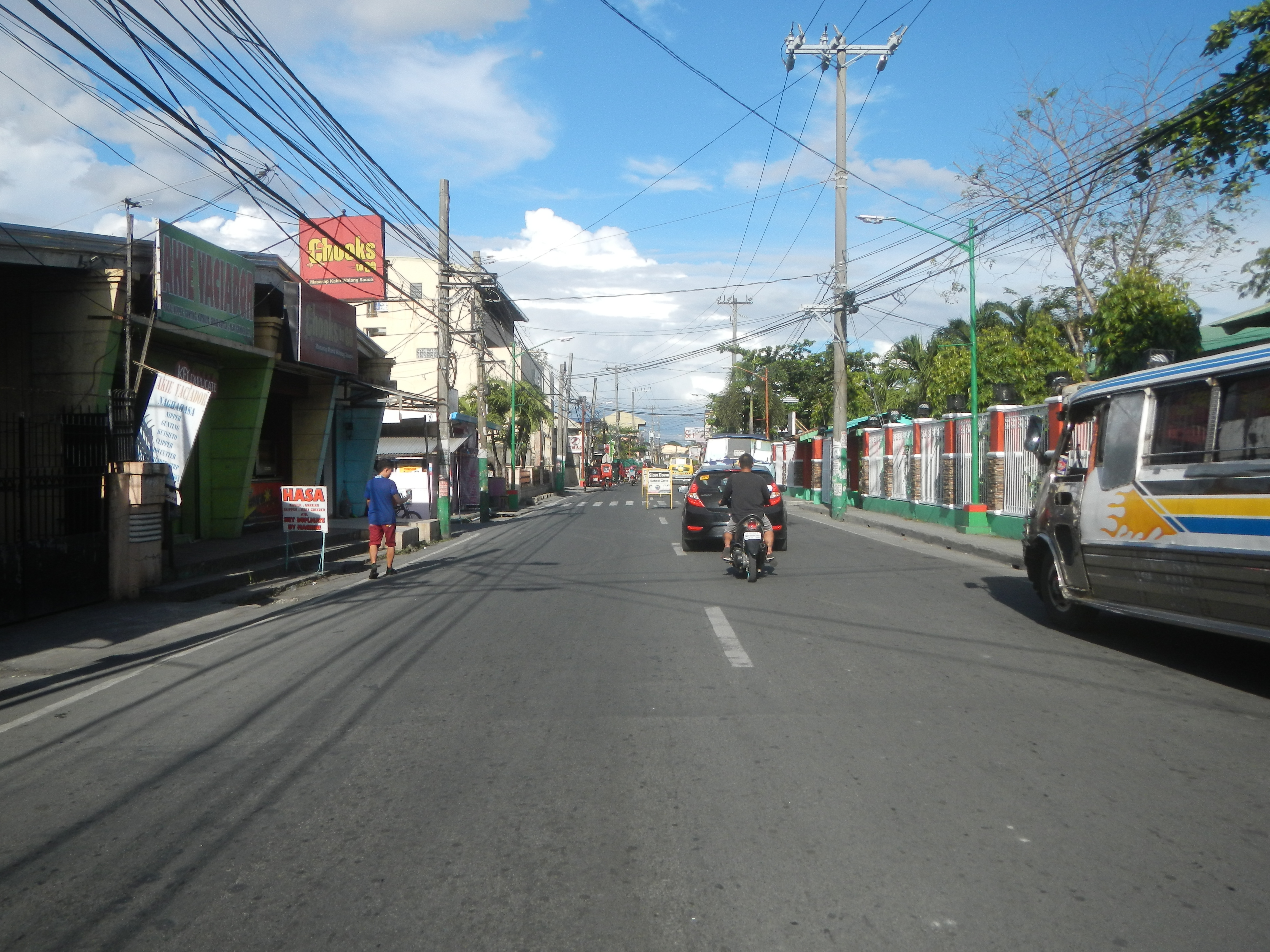 Rosario Elementary School Gusali ng Lingkod Bayan - Rosario, Cavite Barangays Ligtong I 14°25'46"N 120°52'11"E Ligtong II, III & IV, Rosario, Cavite 14°25'34"N 120°52'15"E Bagbag II 14°25'13"N 120°51'42"E Bagbag I 14°25'18"N 120°52'1"E Silangan I & II, Rosario, Cavite 14°25'1"N 120°51'33"E Rosario, Cavite along N401 highway (Philippines) Marseilla Street (N401 highway Philippines, Rosario, Cavite) corner Noveleta–Rosario Diversion Road General Trias Drive (Rosario, Cavite) Philippine highway network (Note: Judge Florentino Floro, the owner, to repeat, Donor Florentino Floro of all these photos hereby donate gratuitously, freely and unconditionally Judge Floro all these photos to and for Wikimedia Commons, exclusively, for public use of the public domain, and again without any condition whatsoever).